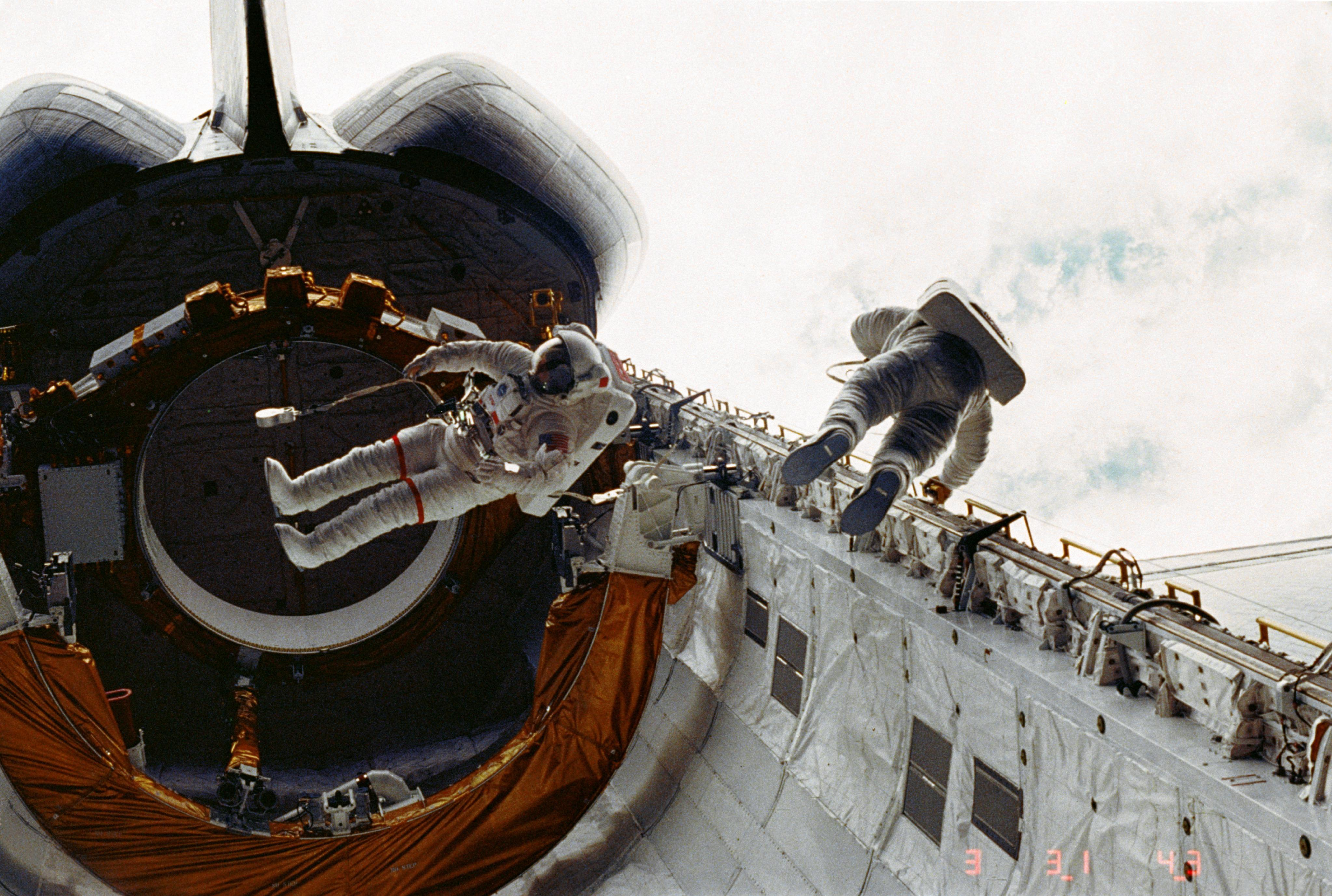 Astronauts Story Musgrave, left, and Don Peterson float in the cargo bay of the Earth-orbiting Space Shuttle Challenger during their spacewalk on the STS-6 mission. Their "floating" is restricted via tethers to safety slide wires. Thanks to the tether and slide wire combination, Peterson is able to translate, or move, along the port side hand rails.